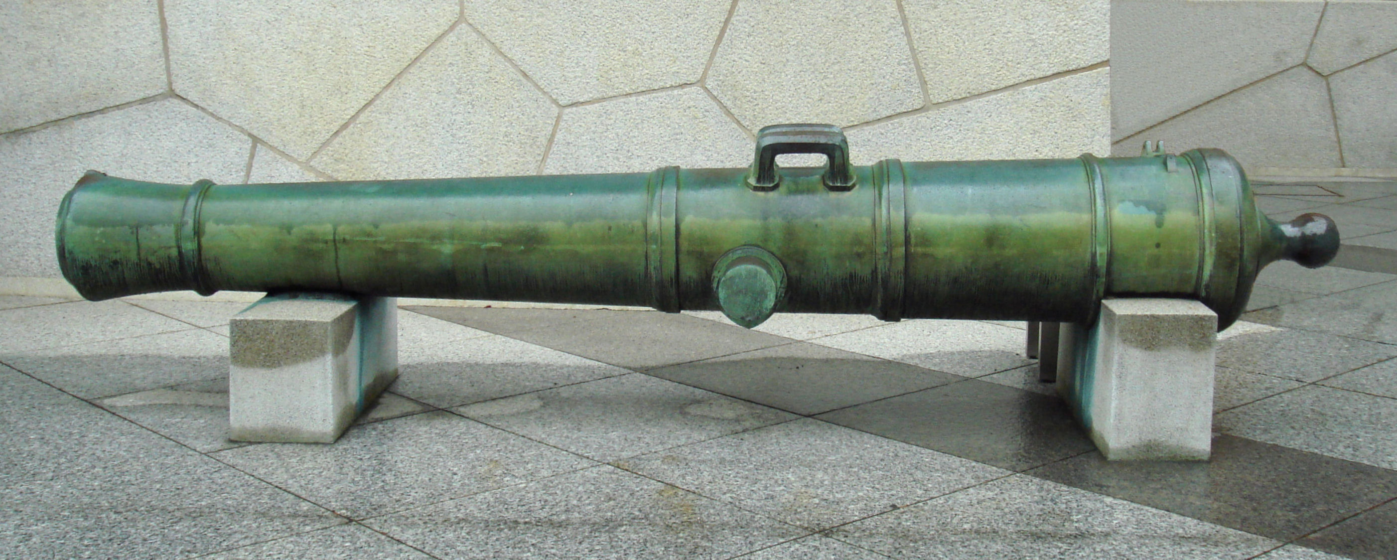 Shinagawa_Baidai_cannon